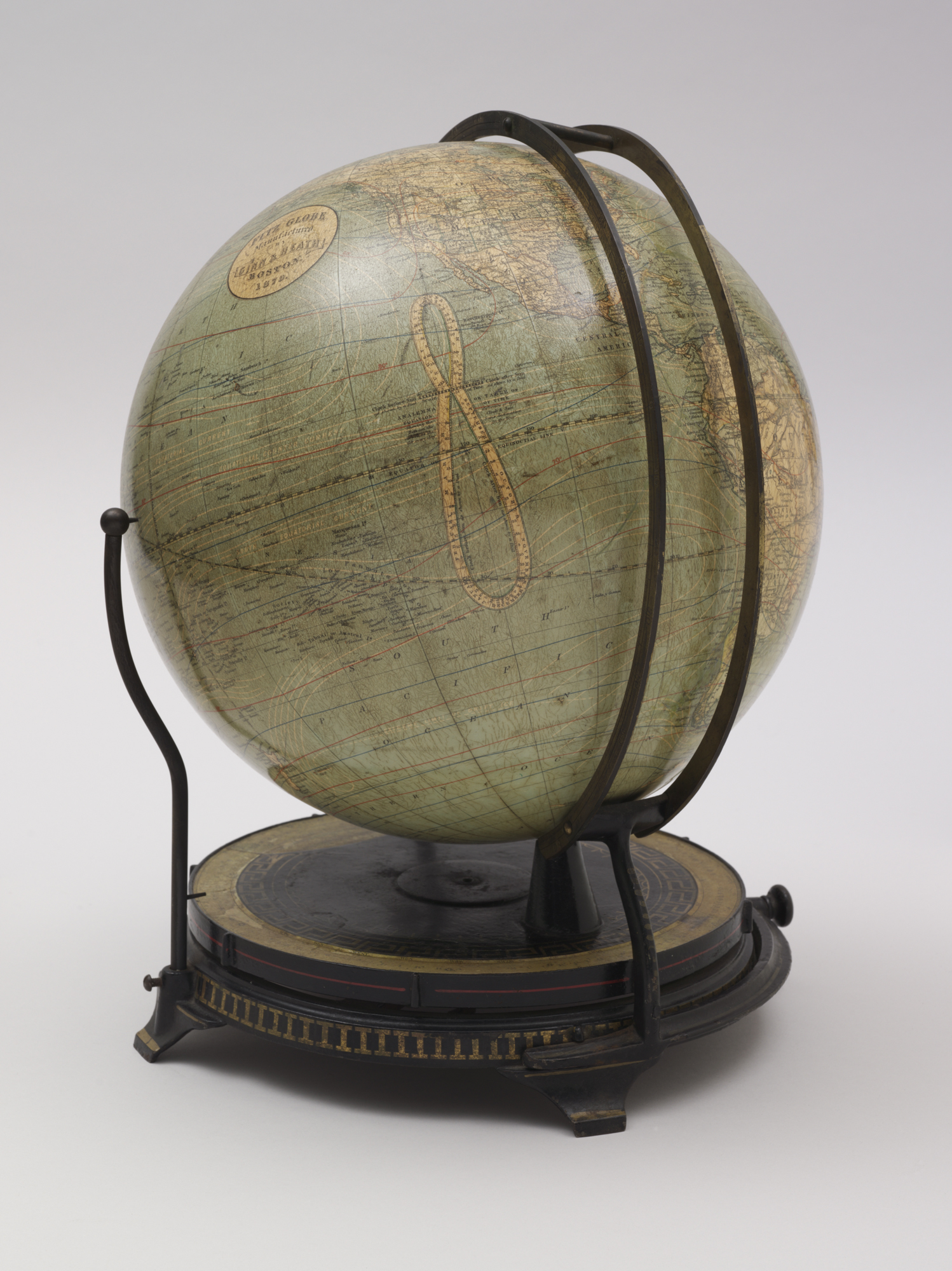 Twelve-inch globe manufactured by the textbook firm of Ginn and Heath, with a mounting system of vertical rings patented by Ellen Fitz of New Brunswick Author: Fitz, Ellen Eliza Publisher: Ginn & Heath Date: [1879] Scale: Scale [ca. 1:80,000,000] Call Number: G3170 1879.F6 Designed for educators to use in the classroom, this twelve-inch globe was published in Boston by the textbook firm of Ginn and Heath. A special feature of this globe is its mounting with two vertical rings showing the changing daylight, twilight and nighttime hours any place on the Earth. The mounting system of vertical rings was patented by Ellen Fitz, a governess from New Brunswick. She was the first women involved in the design and manufacturing of globes. The actual globes that were used with the Fitz mountings were fairly standard mid-19th century globes, derived from the ones published by Gilman Joslin of Boston or W. & A.K. Johnston of Edinburgh. By the third quarter of the 19th century, the outlines and interiors of all the major land masses, except Greenland and Antarctica, had been fairly well explored and mapped. In promoting the study of physical geography, the globe also shows ocean currents (white lines) and average isotherms (lines of equal temperature) for January (blue lines) and July (red lines). The globe's mounting, which was Fitz's unique contribution to this educational tool, was designed to help students understand the effects of the Earth's daily rotation on its axis and yearly revolution around the Sun, with regard to daylight, twilight, and nighttime. By turning the globe's base in relation to the pointer representing the Sun's vertical ray, it is possible to observe these changes through the seasons. Zoom into this photograph at .